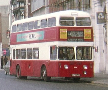 Portsmouth Corporation bus, a 1966 Leyland Atlantean PDR1 double-decker with Metro Cammell bodywork, pictured in The Hard, Portsmouth, Hampshire, about to leave on route 143.